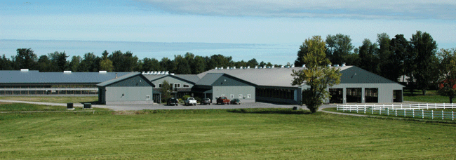 Image of the Miner dairy barns with the main barn to the right and research barn to the left